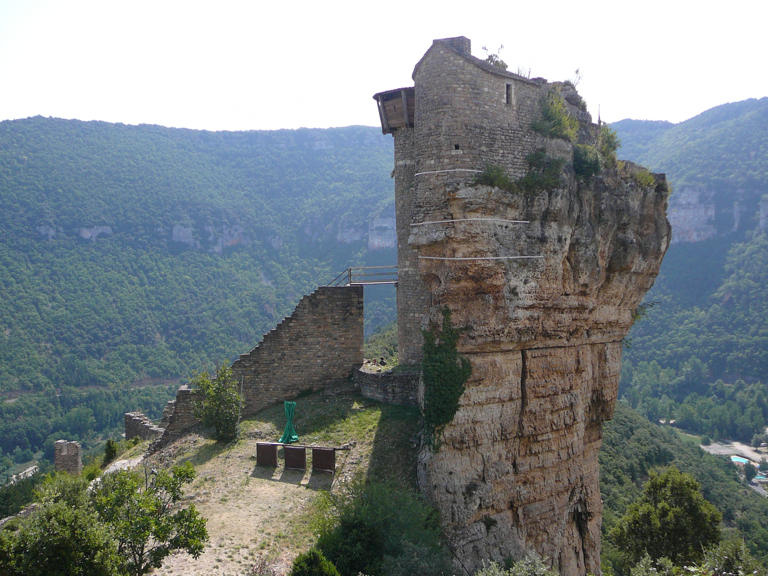 Castle of Peyrelade, France : Upper part